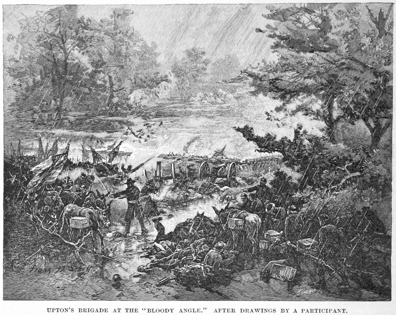 Colonel Emory Upton's assault on the Mule Shoe during the Battle of Spotsylvania Court House